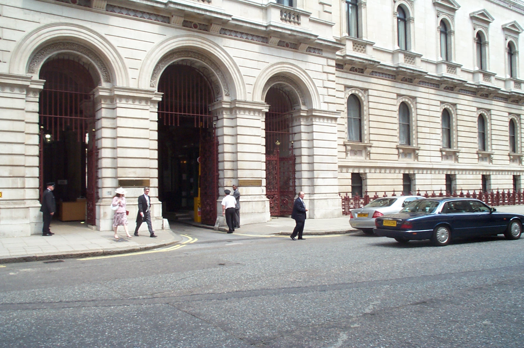 Entrance to the Foreign and Commonwealth Office